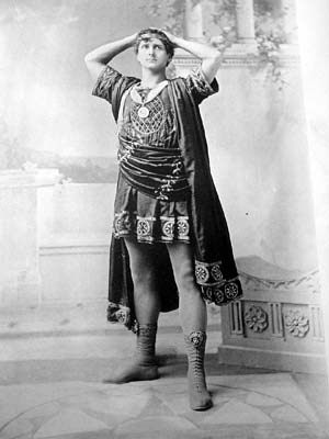 Photo of C. Hayden Coffin as Diomed in A Greek Slave, 1898